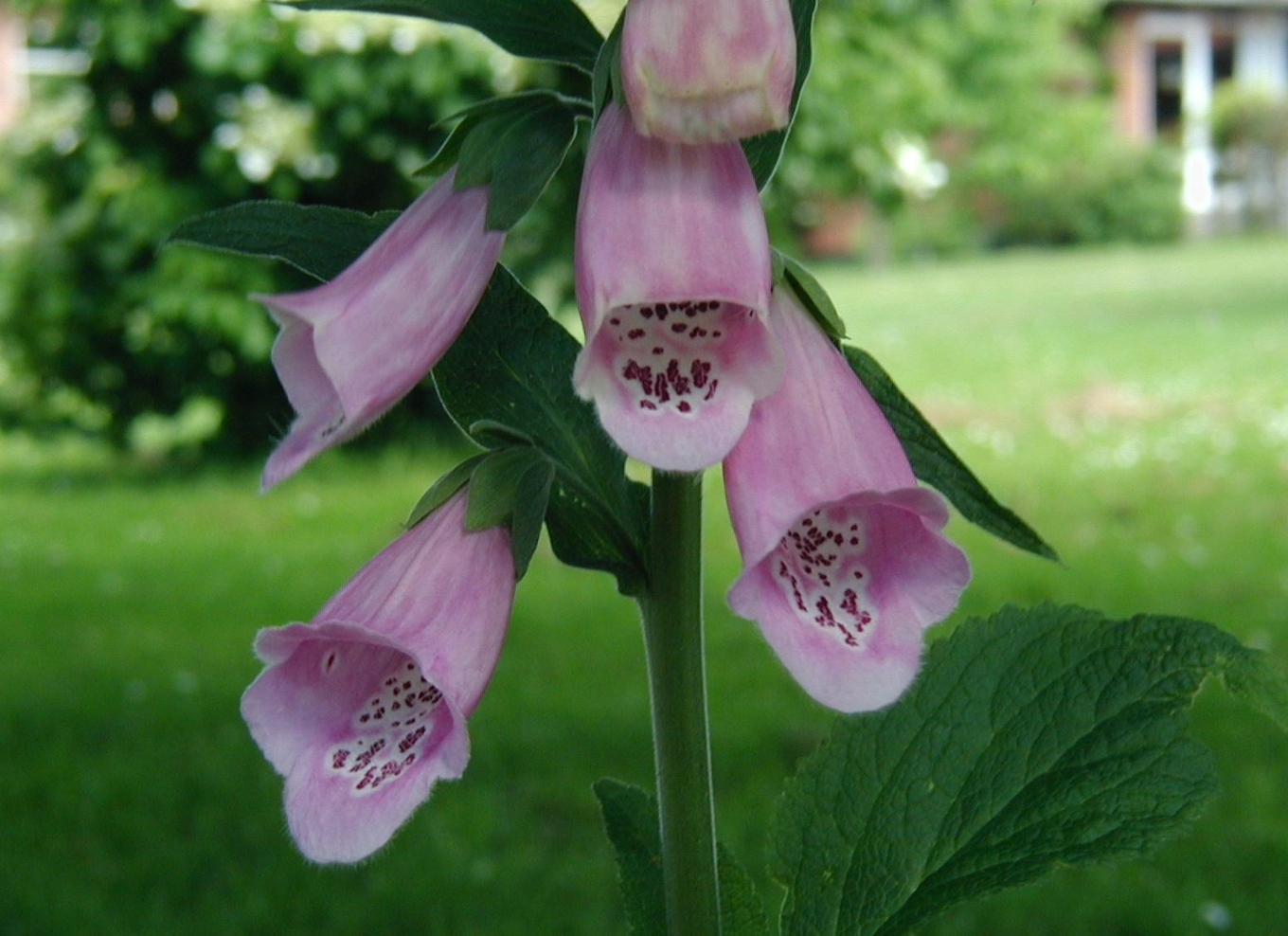 Digitalis purpurea: Flowers